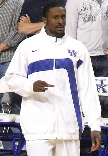 Patrick Patterson following a game against Clarion University